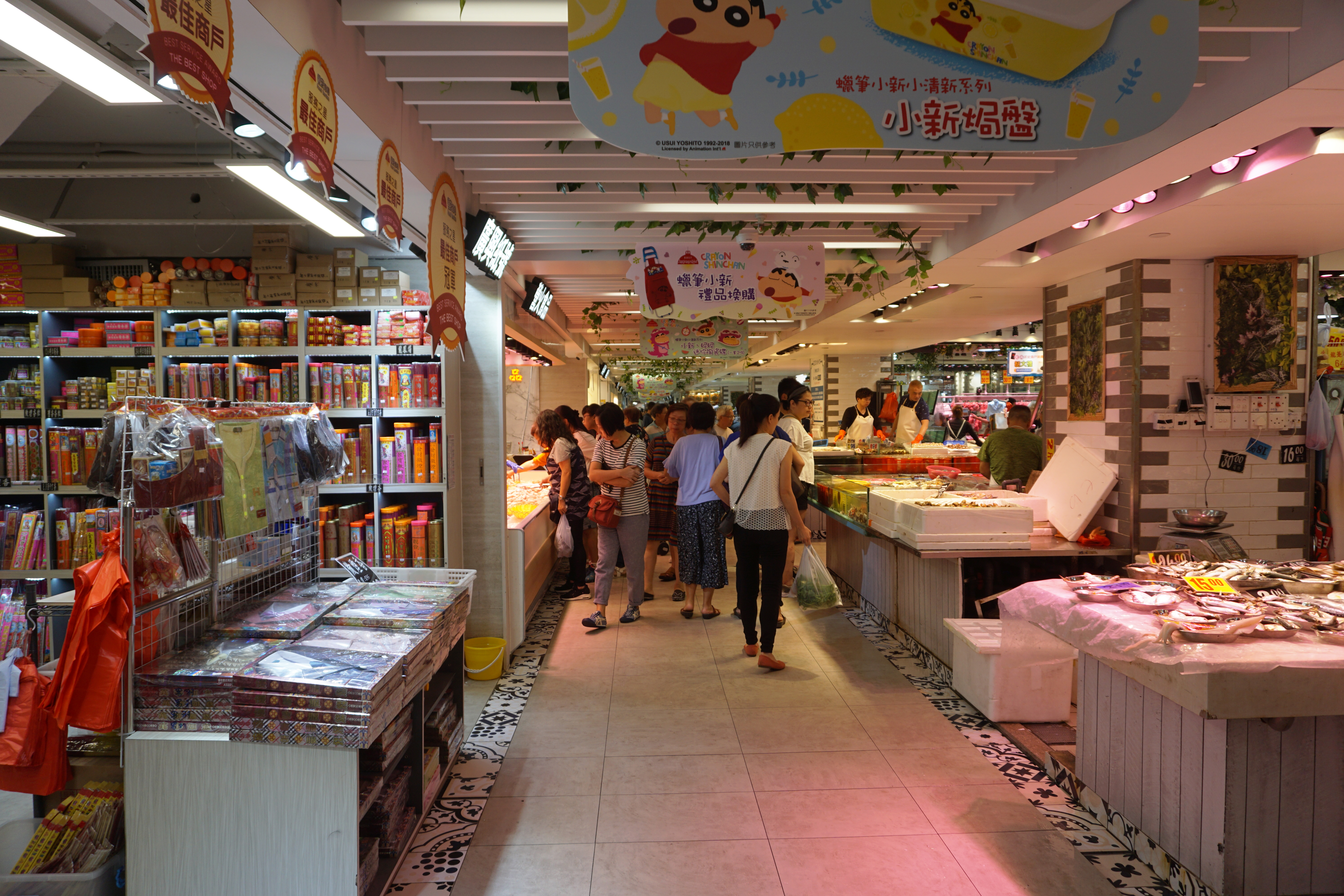 Food Garden in Heng On, Hong Kong.